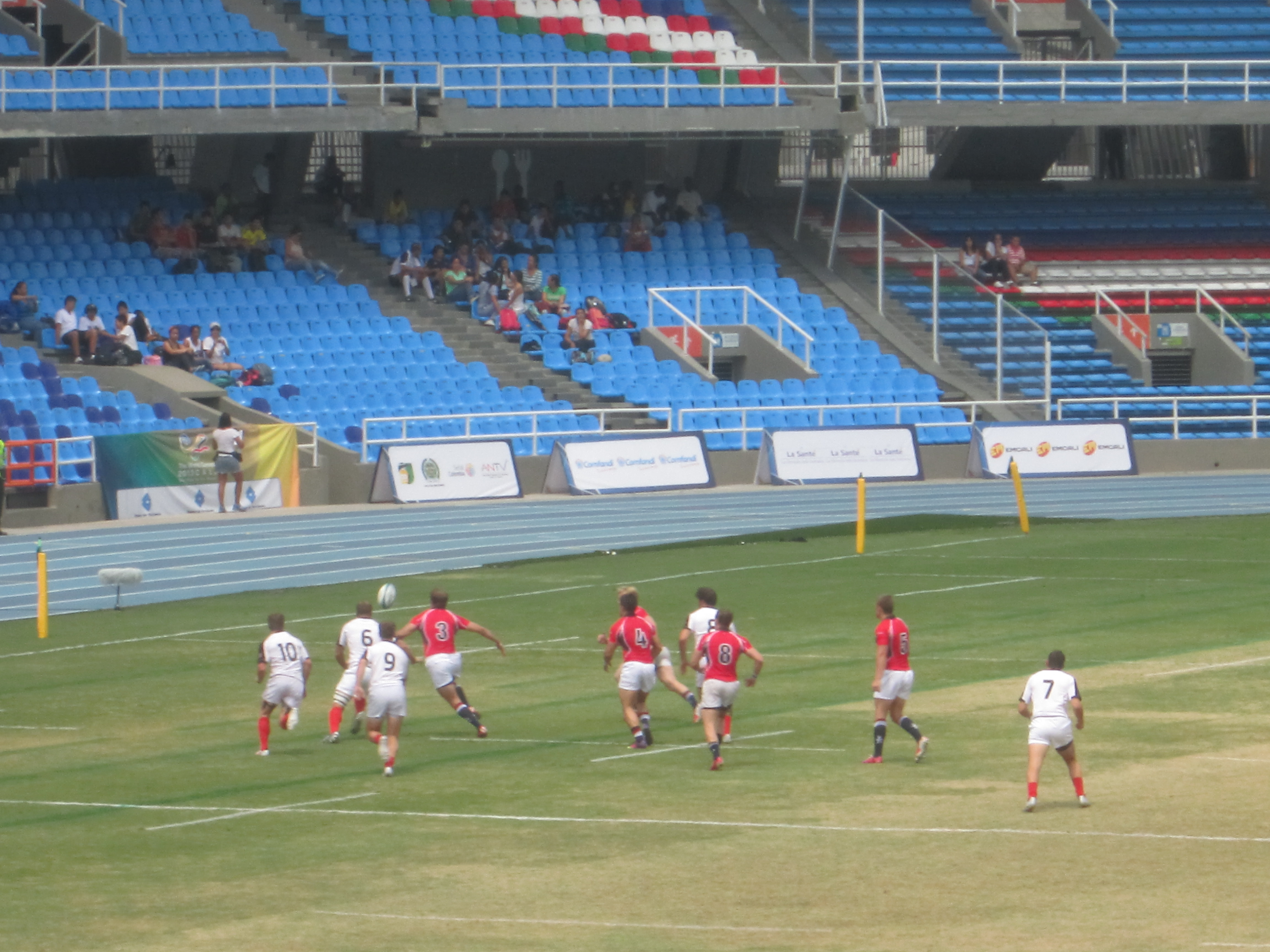 Hong Kong against Canada at the World Games 2013